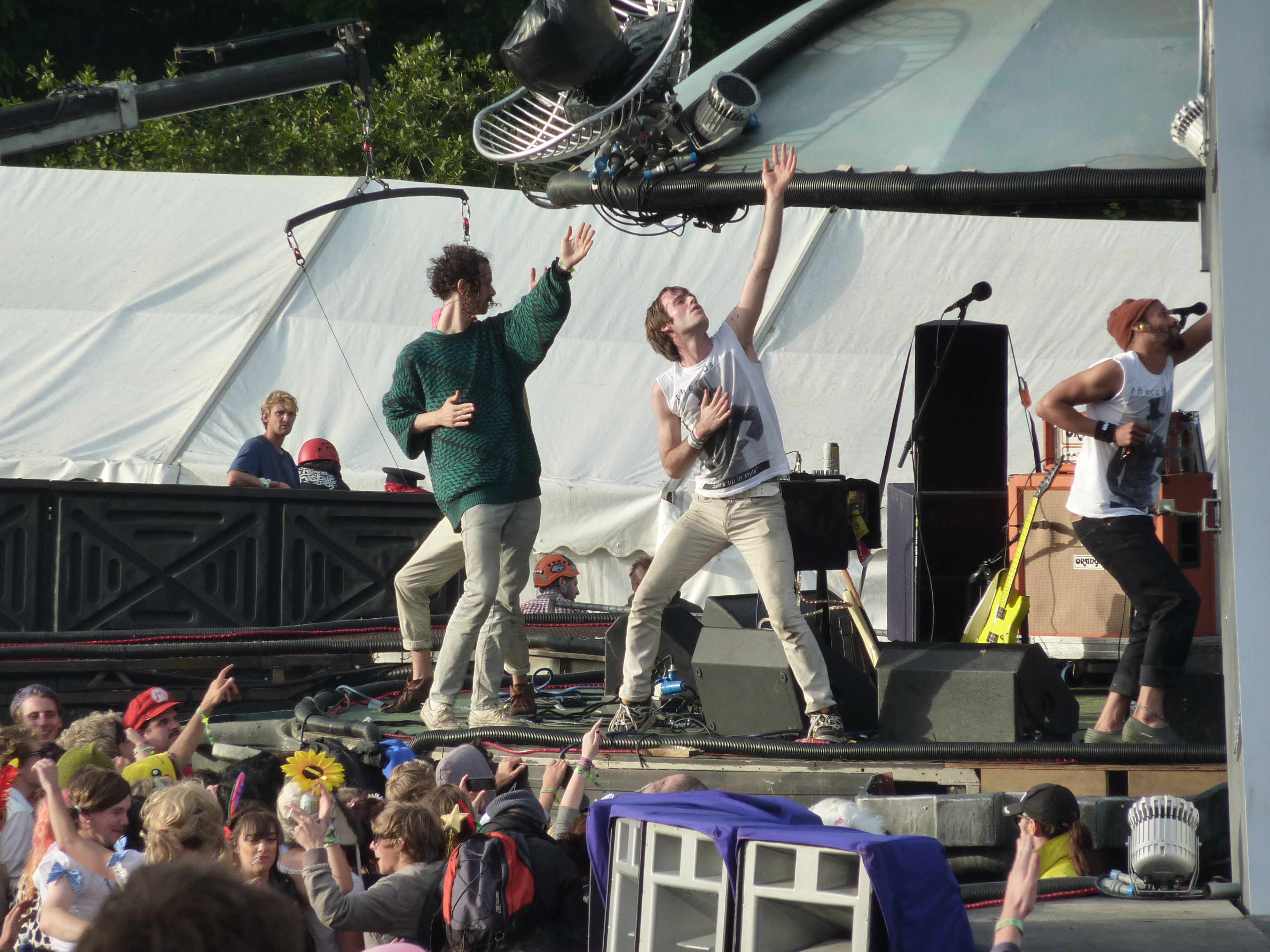 Darwin Deez, seen performing live at Bestival 2010, held on the Isle of Wight.